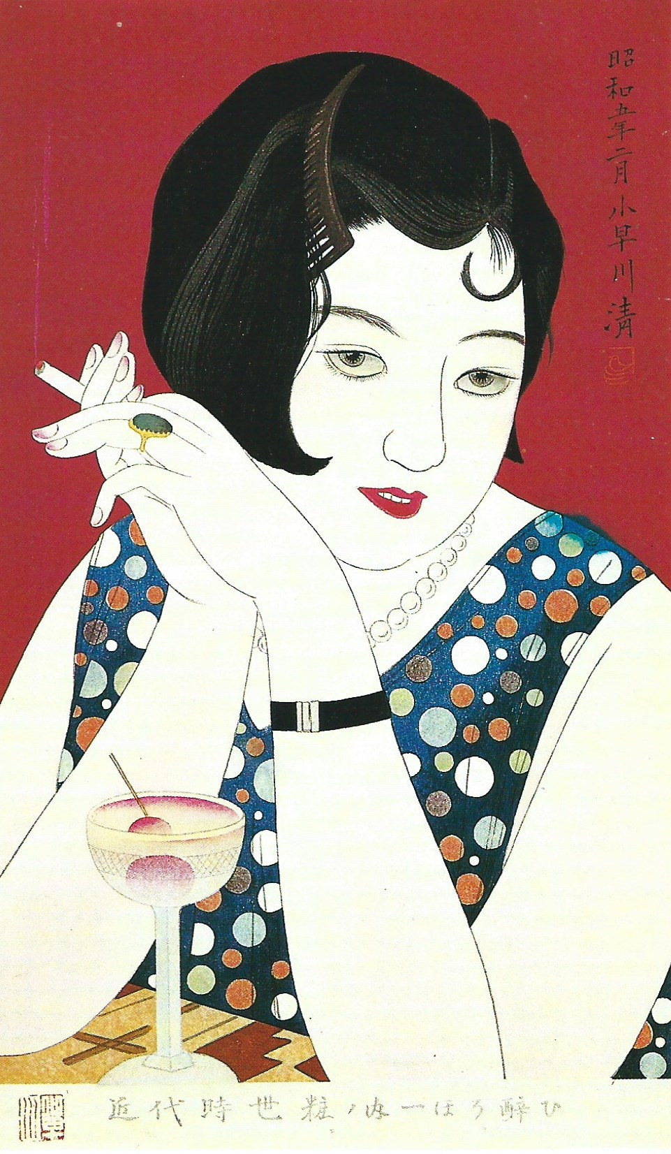 woodcut "tipsy" (Shin-hanga)